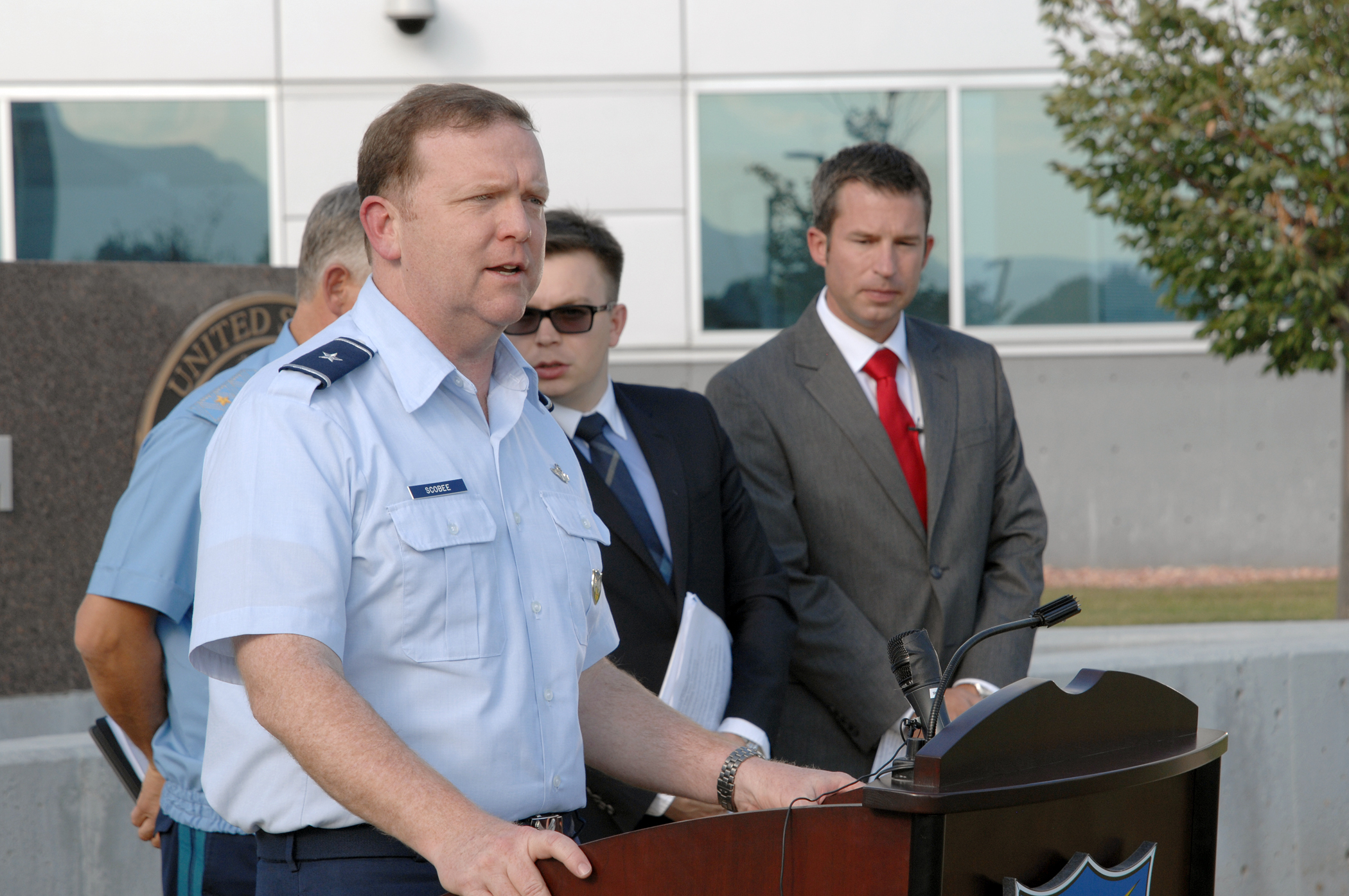 Air Force Brig. Gen. Richard Scobee, NORAD deputy director of operations, offers comments during a press conference wrapping up Vigilant Eagle 12, Aug. 29, 2012. Vigilant Eagle 12, a joint computer based command post exercise, is designed to build and strengthen cooperation between U.S., Canadian and Russian military forces during a terrorist hijacking where the aircraft moves between U.S. and Russian airspace. (U.S. Air Force photo by Tech. Sgt. Thomas J. Doscher)